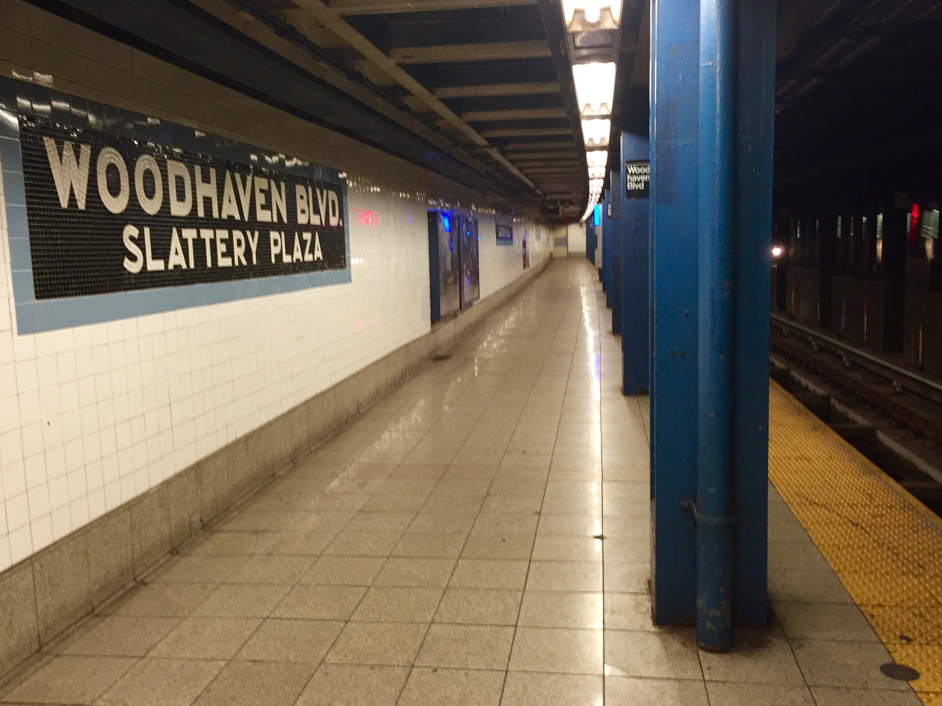 Forest Hills bound platform at Woodhaven Boulevard on the M/R.